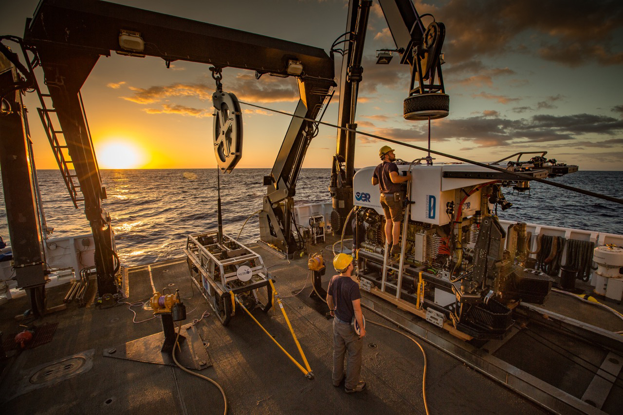 Remotely operated vehicle Deep Discoverer being prepared for deployment on the Okeanos aft deck. Image courtesy of NOAA Office of Ocean Exploration and Research, 2016 Deepwater Exploration of the Marianas.